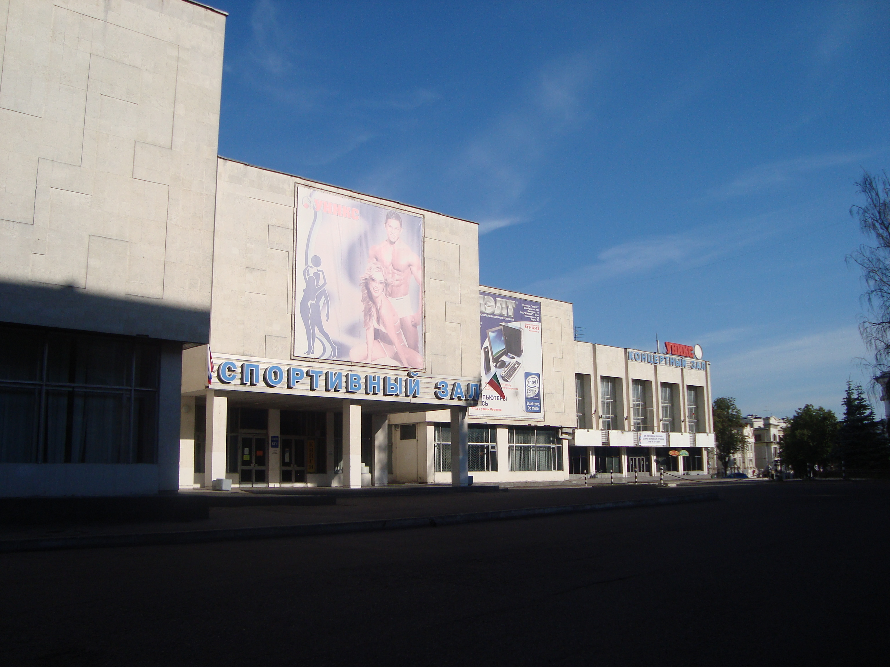 Kazan State University Koncert and sports' halls